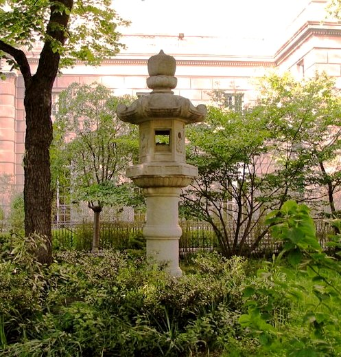 A Japanese lantern (灯篭) given to the City of New York by the City of Tokyo, which now resides in Sakura Park